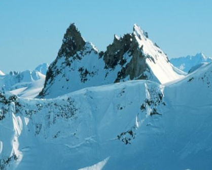 Photo taken on a traverse of the Pemberton Icecap, showing mount Fee's two peaks from the north.